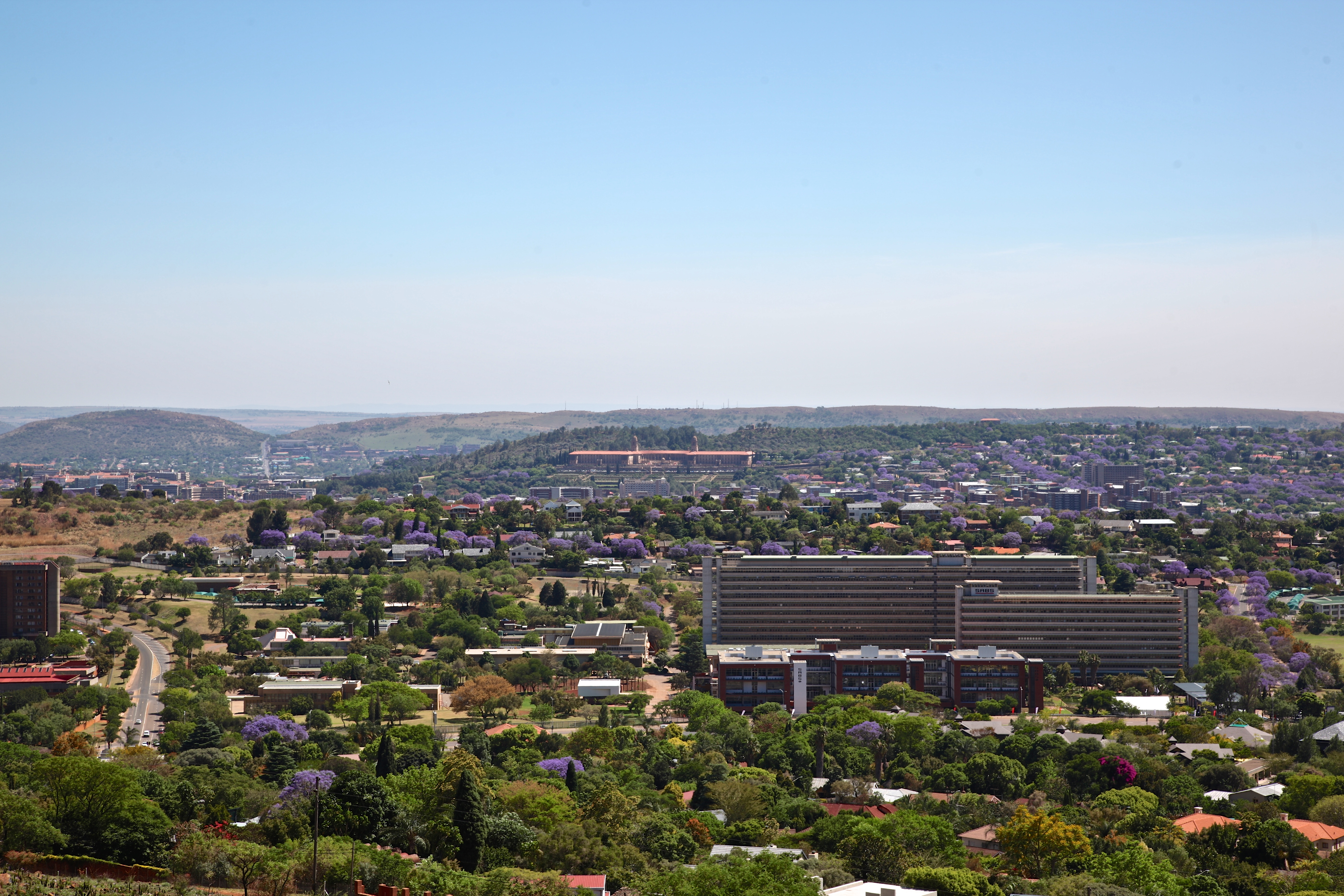 View over Pretoria with the Union Buildings in the distance. Taken from Fort Klapperkop, Groenkloof, Pretoria This media shows a South African Protected Site with SAHRA file reference 9/2/258/0032. This media shows a South African Protected Site with SAHRA file reference 9/2/258/0067.